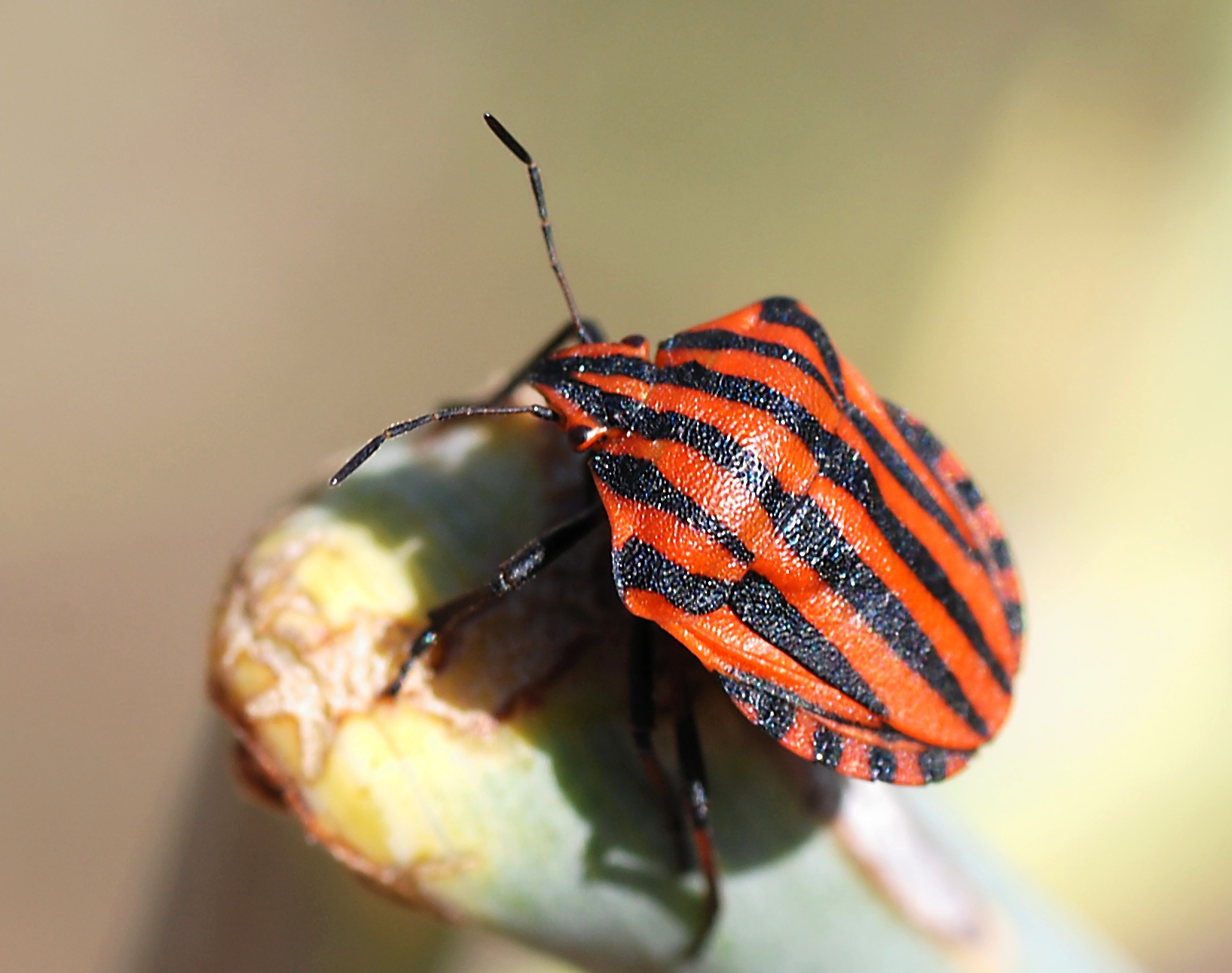 Graphosoma italicum on a branch of an umbellifer